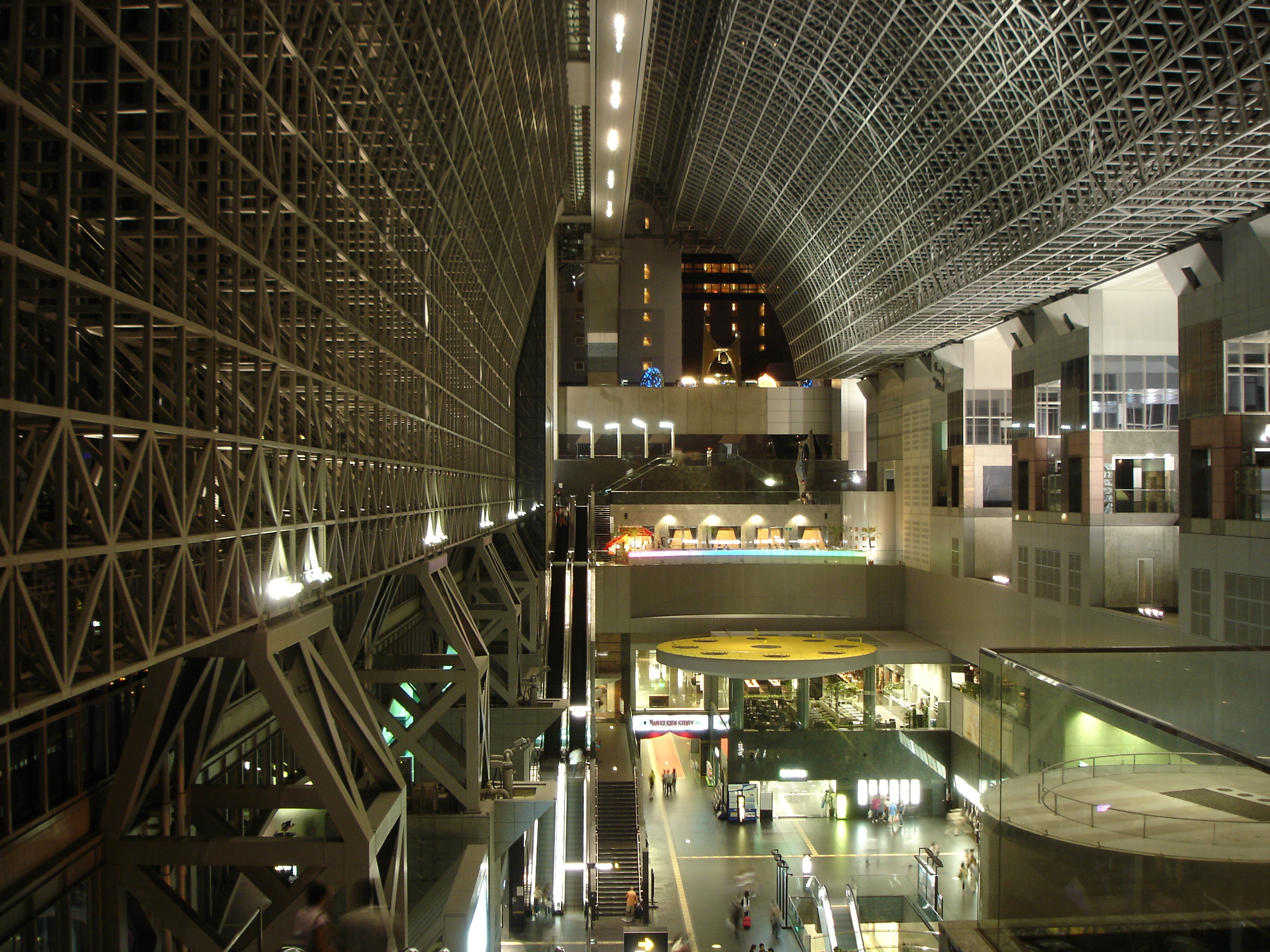 Kyoto train station